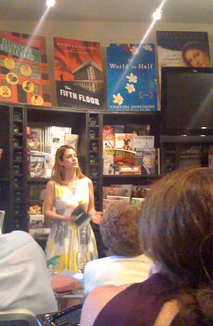 Gillian Flynn: Local Author Night at The Book Cellar